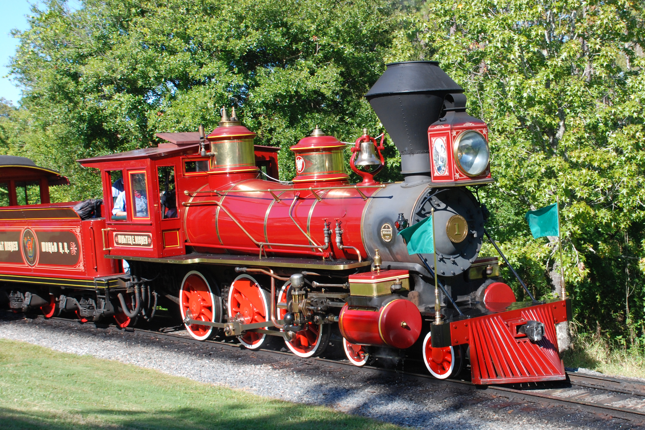 The Walter E. Disney pulling its 100 series red coaches.